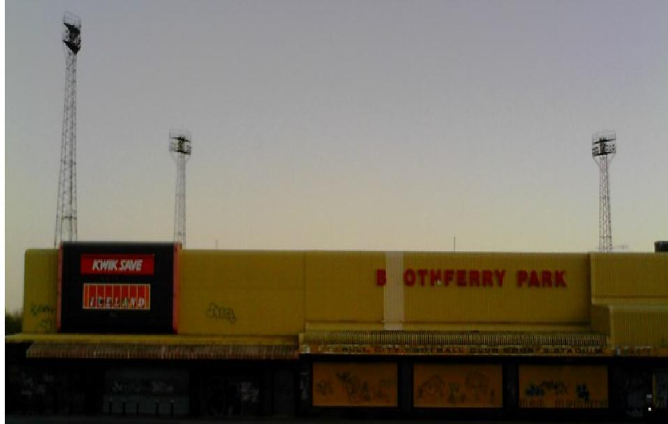 Boothferry Park, Boothferry Road, Hull, East Riding of Yorkshire, England. March 4th 2008